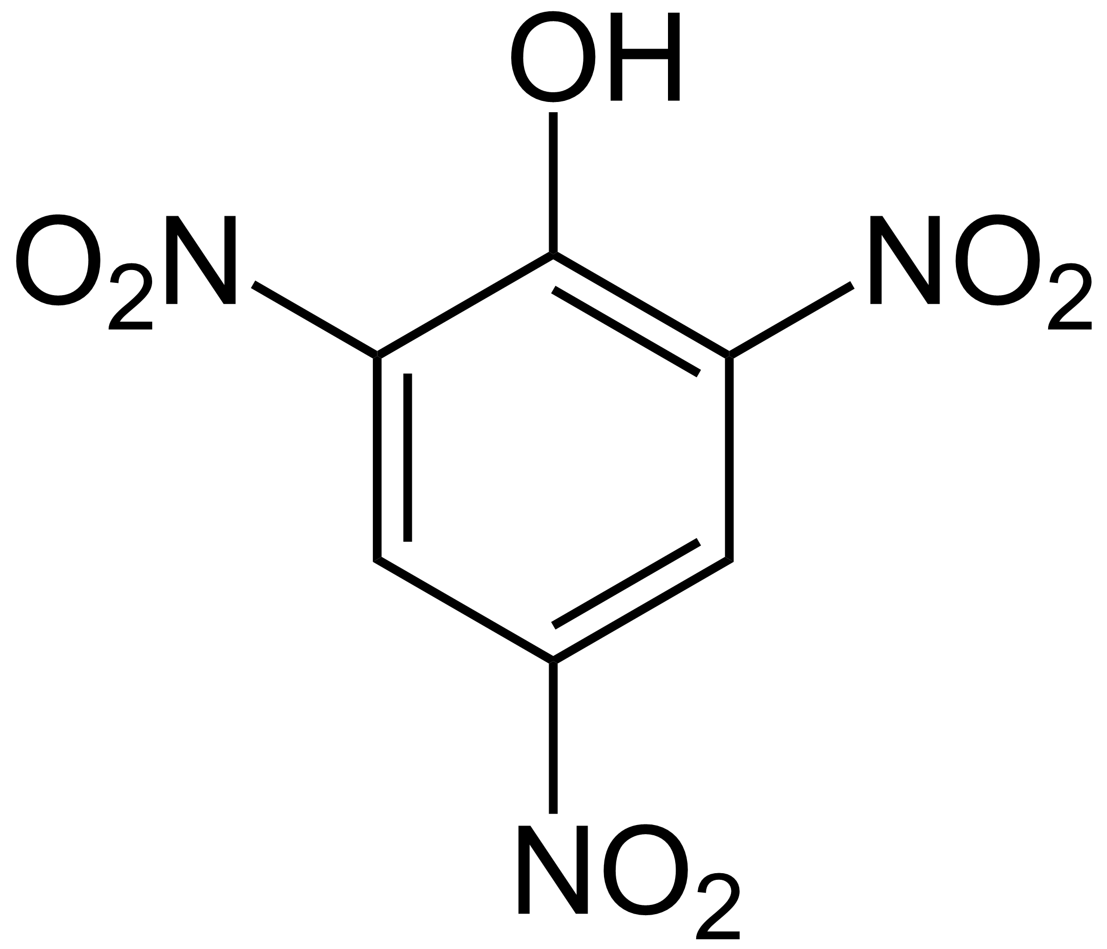 Chemical structure of picric acid (trinitrophenol)